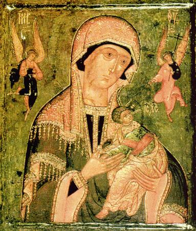 Strastnaya (of Passion) Icon of vigin Mary. Страстная икона Божьей матери. Name - because of two angels with Instruments of the Passion in hands